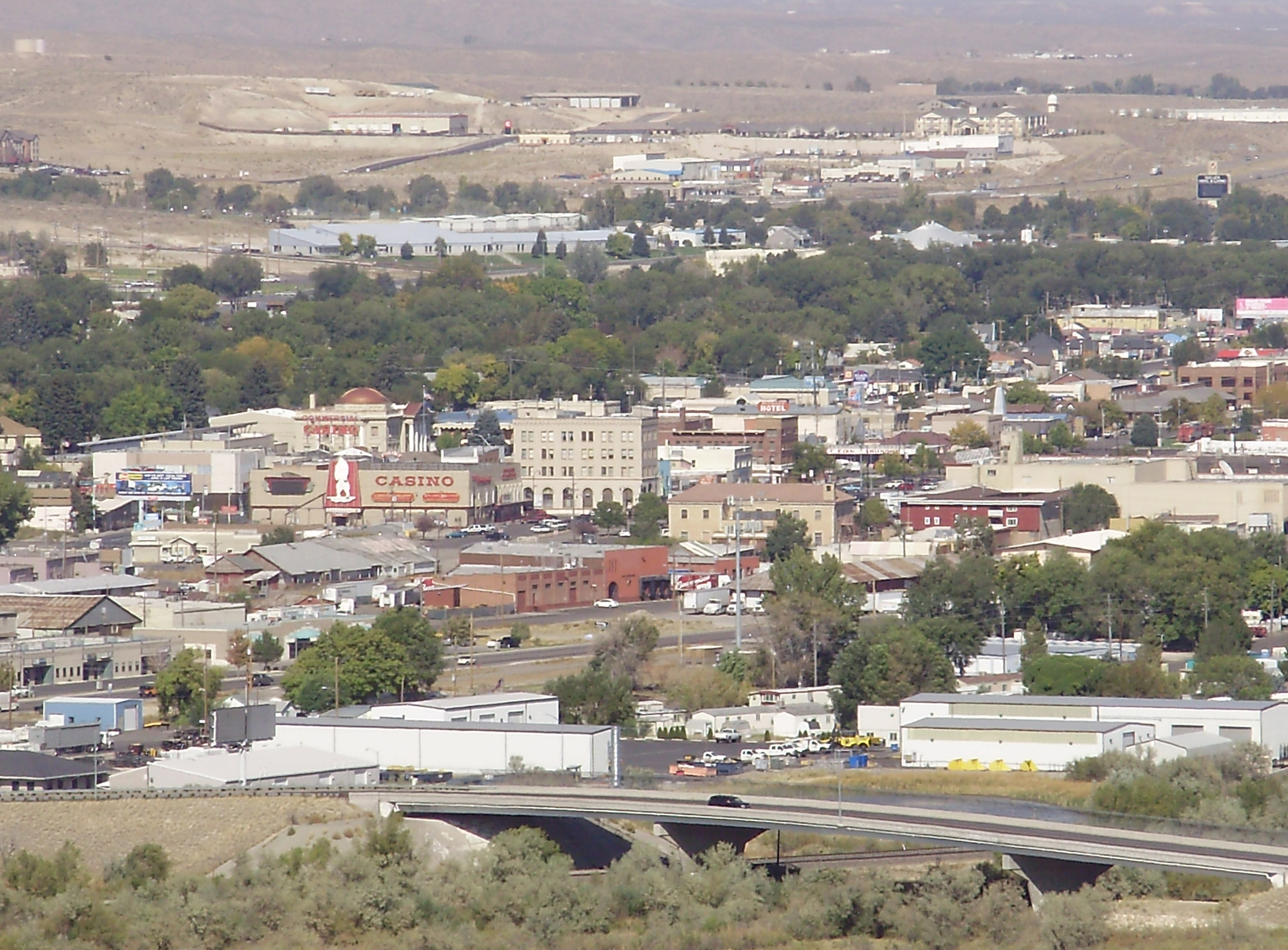 View of downtown Elko, Nevada from a bluff to the south.